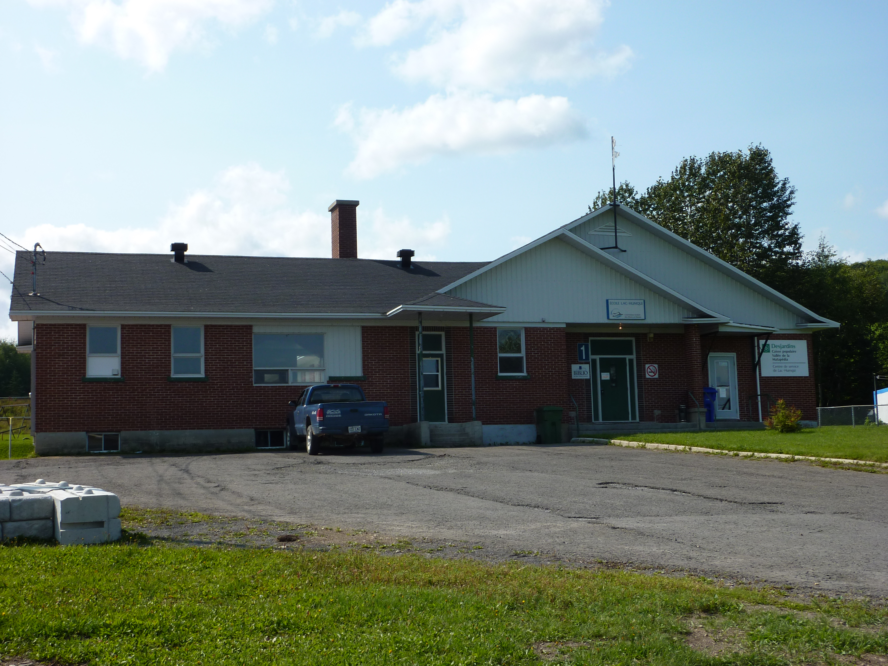 Elementary School of Saint-Zénon-du-Lac-Humqui, Qc